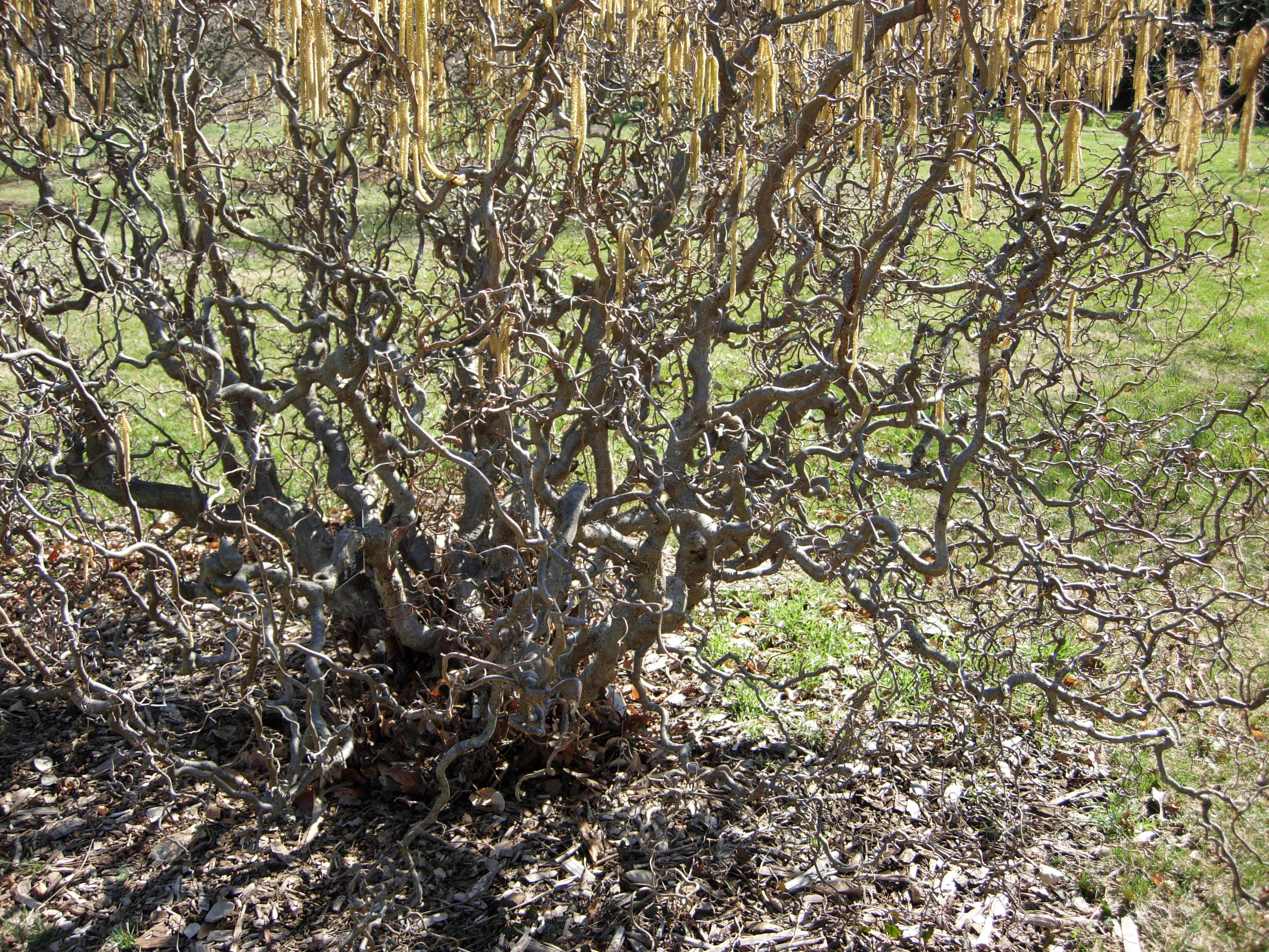 Closeup of lower branches from a Corylus avellana 'Contorta' (Corkscrew Hazel) plant at Cylburn Arboretum in Baltimore, MD.